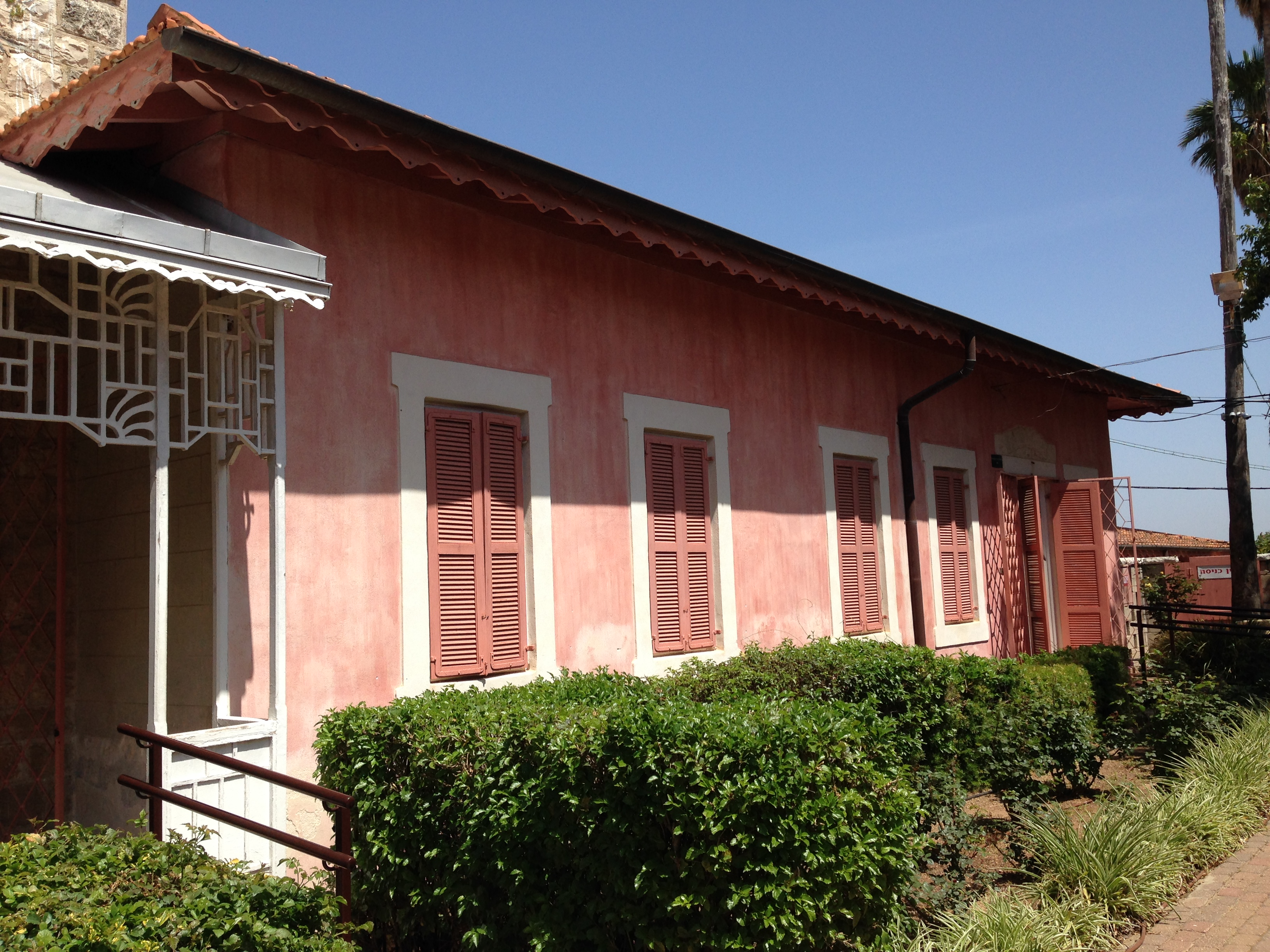 Musem of NILI, also known as Beit Aaronsohn, Zikhron Yaakov